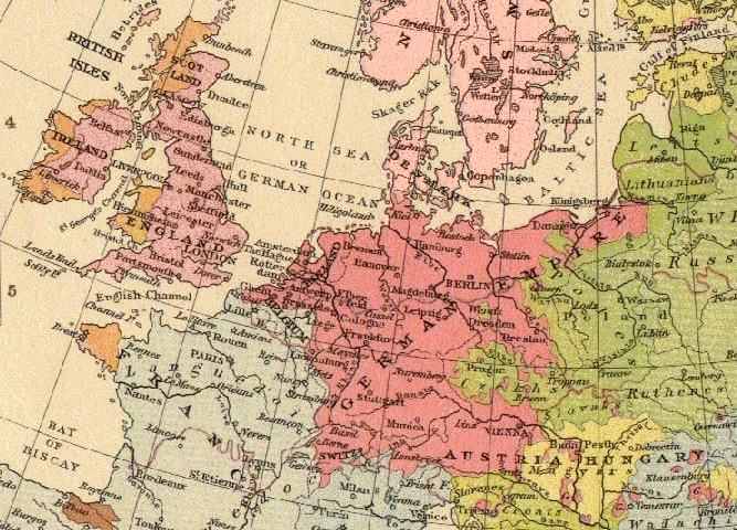 A historical ethnographic map of Europe from The Times Atlas (1896). Cropped from Europe (1896), ethnic groups.jpg to show only ethnic groups marked with shades of red, i.e. speakers of the Germanic languages. According to its legend: Germans (including Lower and Upper Germans. "G." is also used in some areas as an abbreviation for "German") English Scandinavians